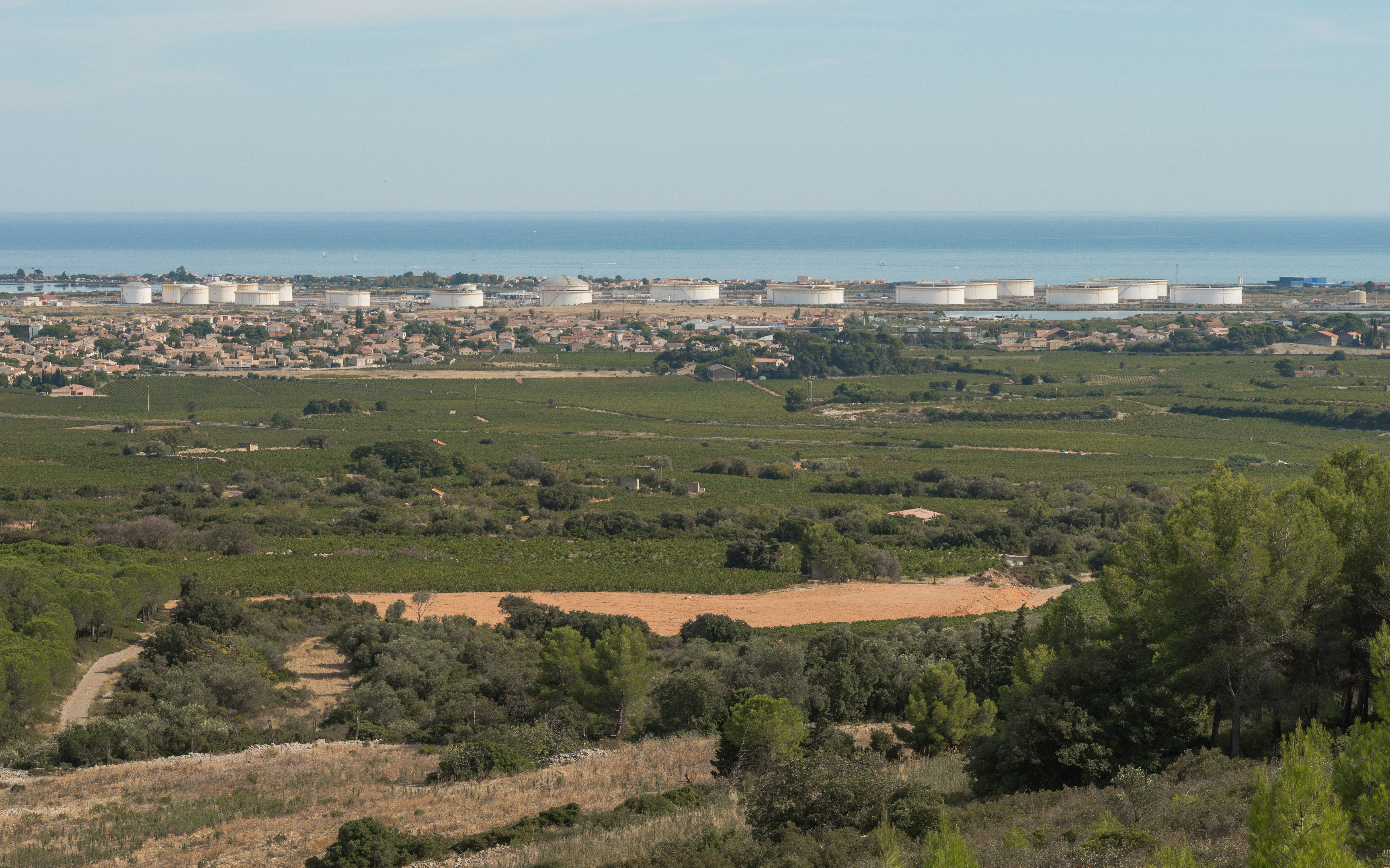 An oil depot of GDH (in french : Société de Gestion de Depot d'hydrocarbure), a subsidiary of BP. View from La Gardiole Mountain in Northwest. Frontignan, Hérault, France.